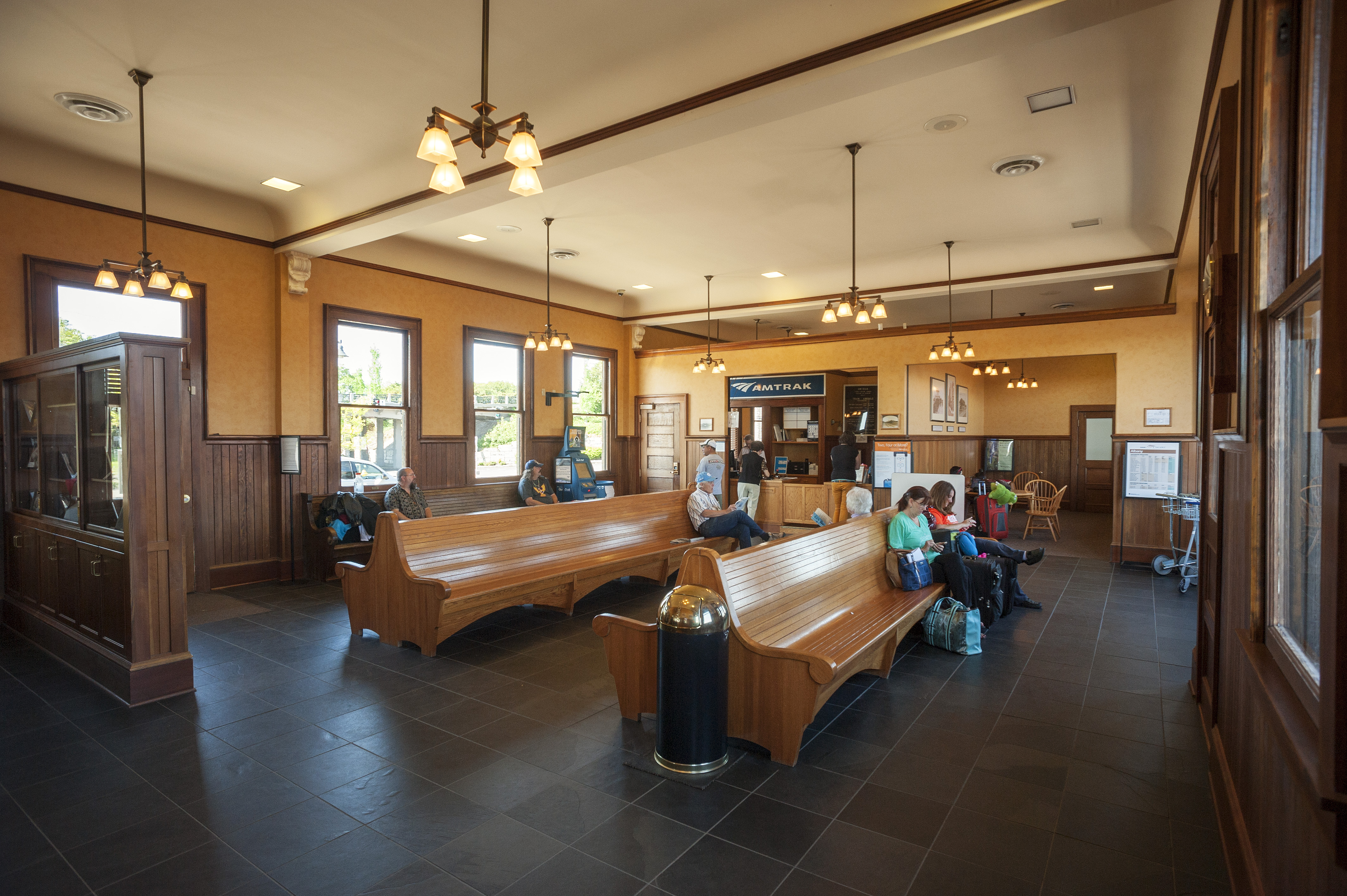 The Cascades POINT provides daily transportation between Portland and Eugene, making a total of seven stops including Albany Station. Passengers are invited to relax inside the station while waiting for their bus to depart or for their ride to pick them after their trip. Information about schedules, tickets, and fares can be found at Local transit connections provided by Albany Transit